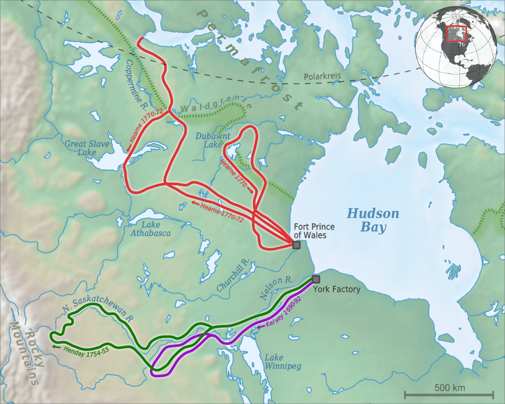 Hudson's Bay Company - Exploration Western Interior / Expeditions of Hearne, Henday & Kelsey Henry Kelsey 1690-92 Samuel Hearne 1770, 1770-72 Anthony Henday 1754-55